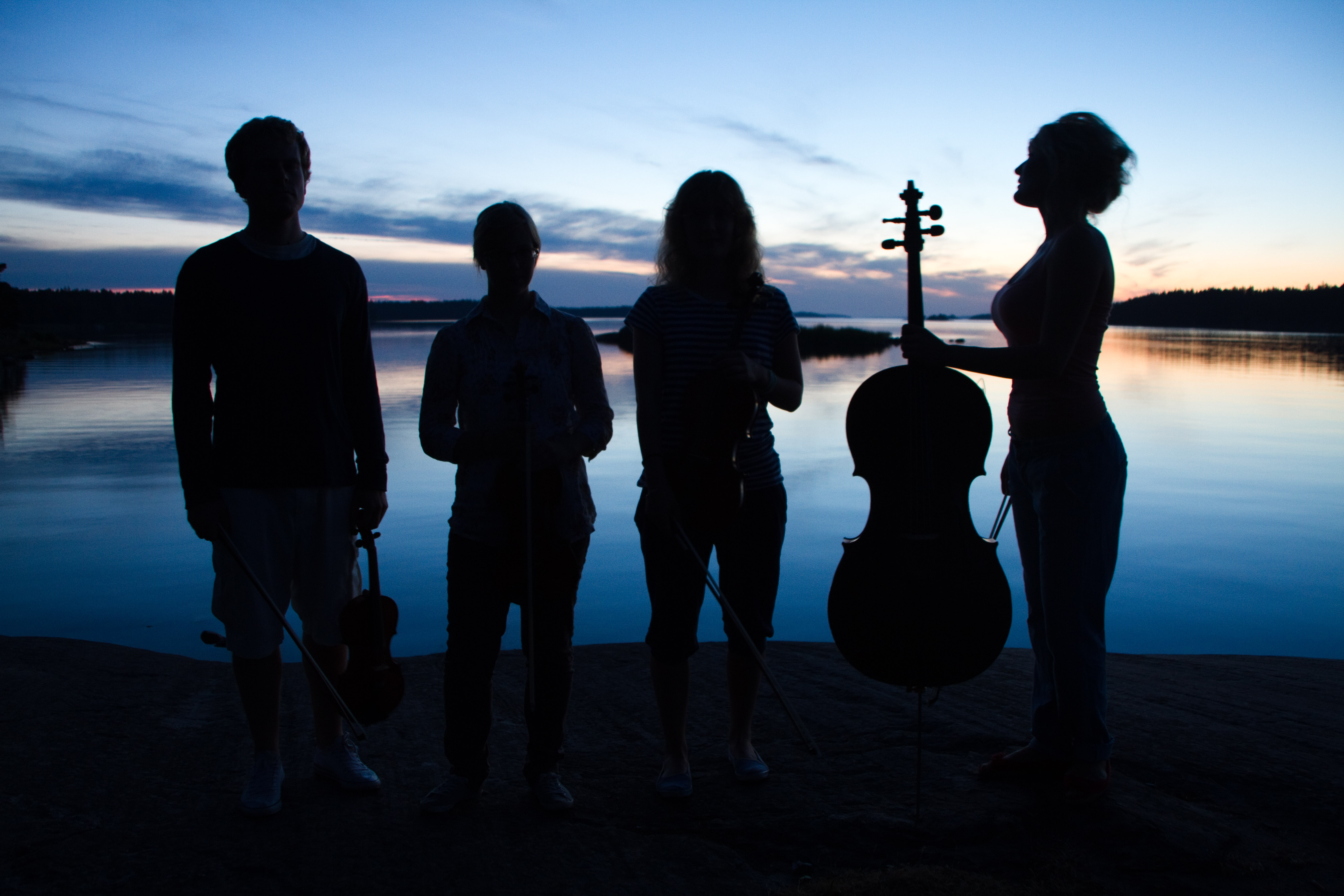 String Quartet UNI